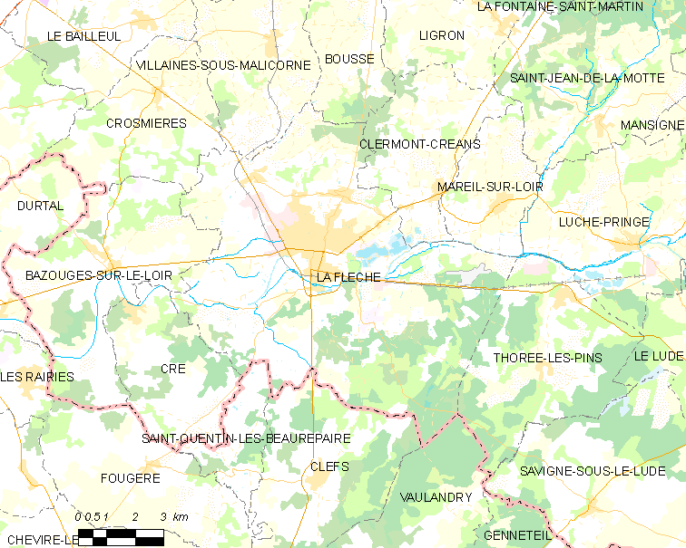 Map of French municipality